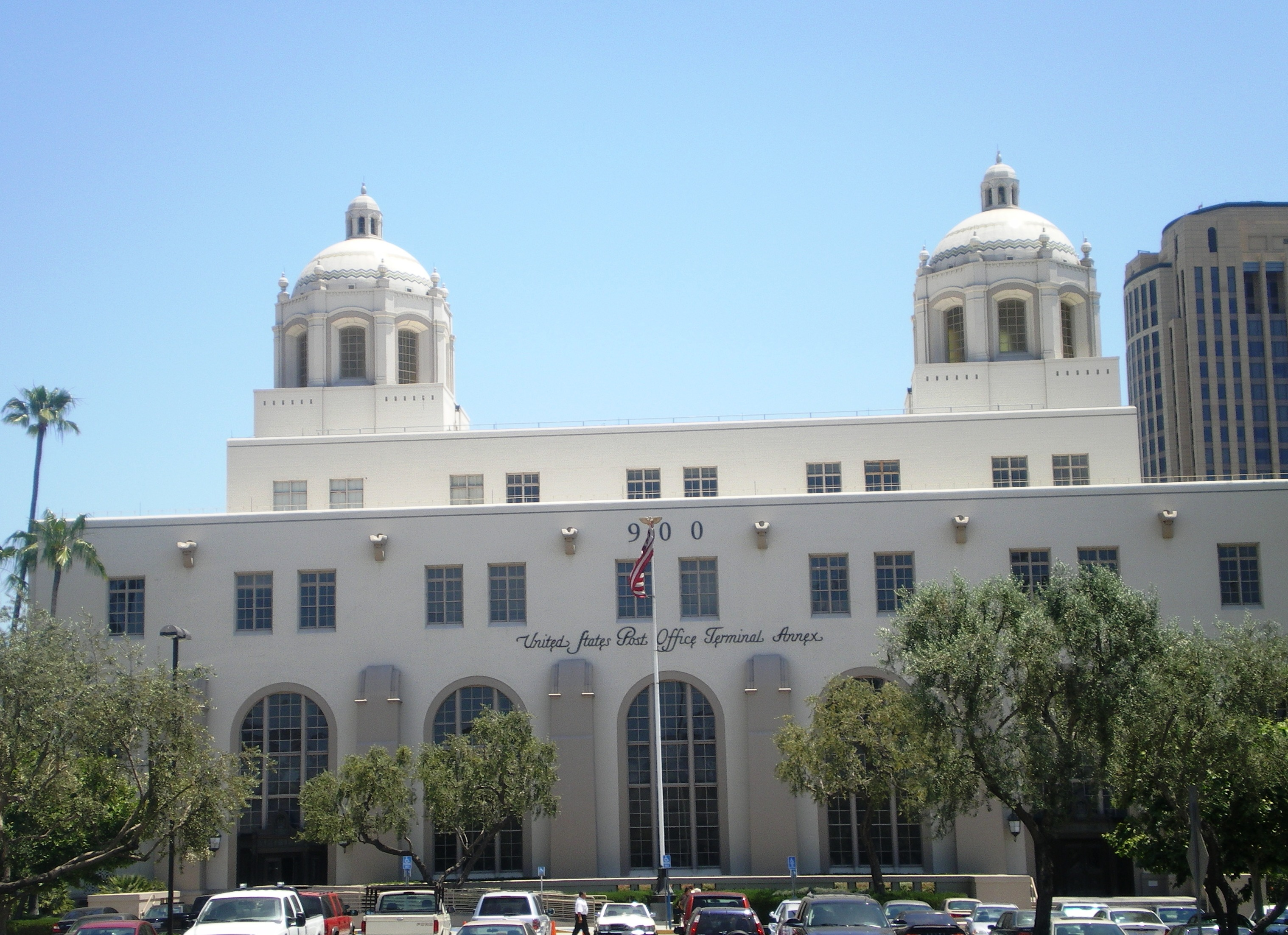 U.S. Post Office - Terminal Annex, 839 S. Beacon St., Los Angeles, California